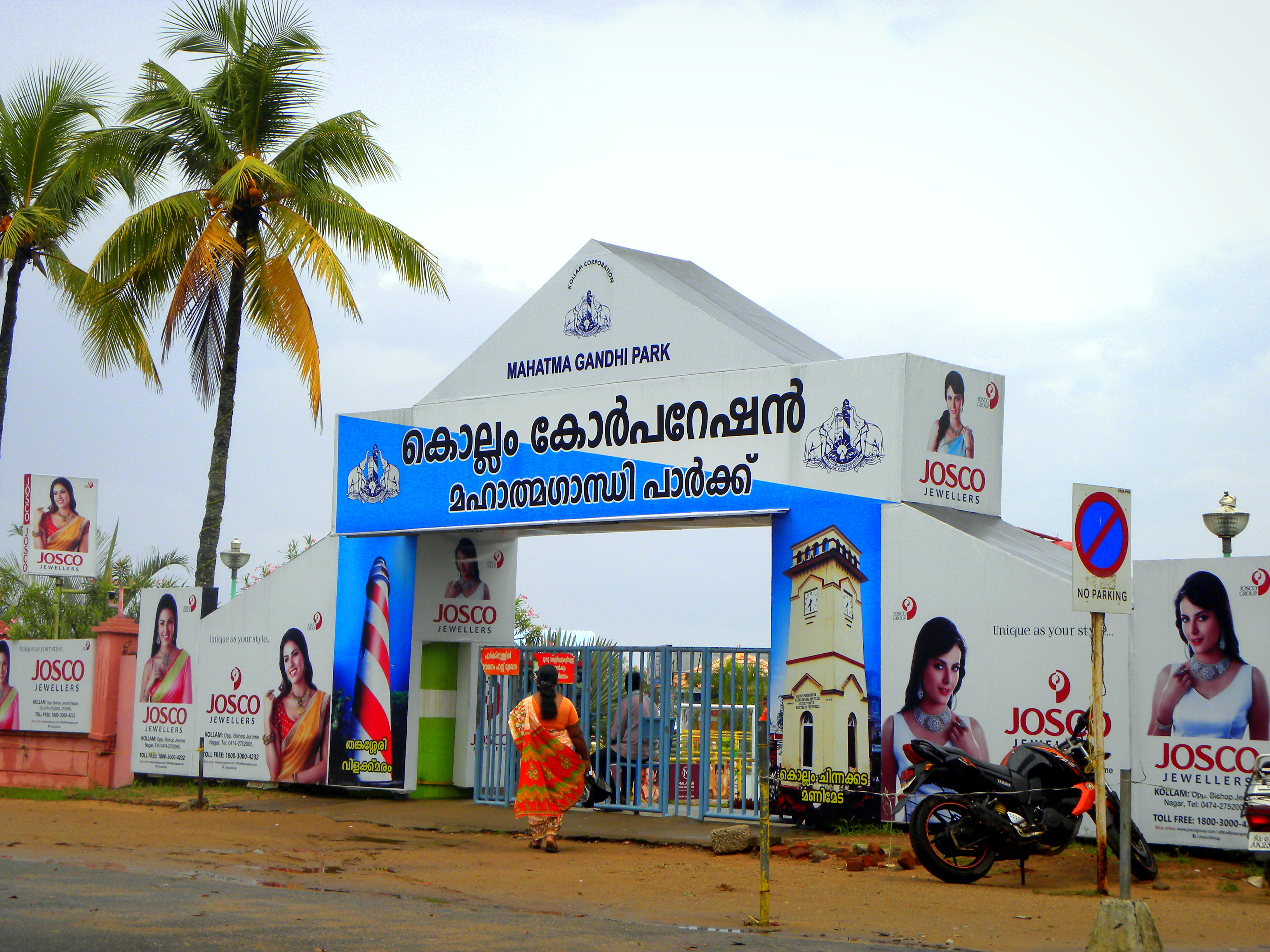 Mahatma Gandhi Park, Kollam - One of the public parks in Kollam city, situated very close to Kollam Beach